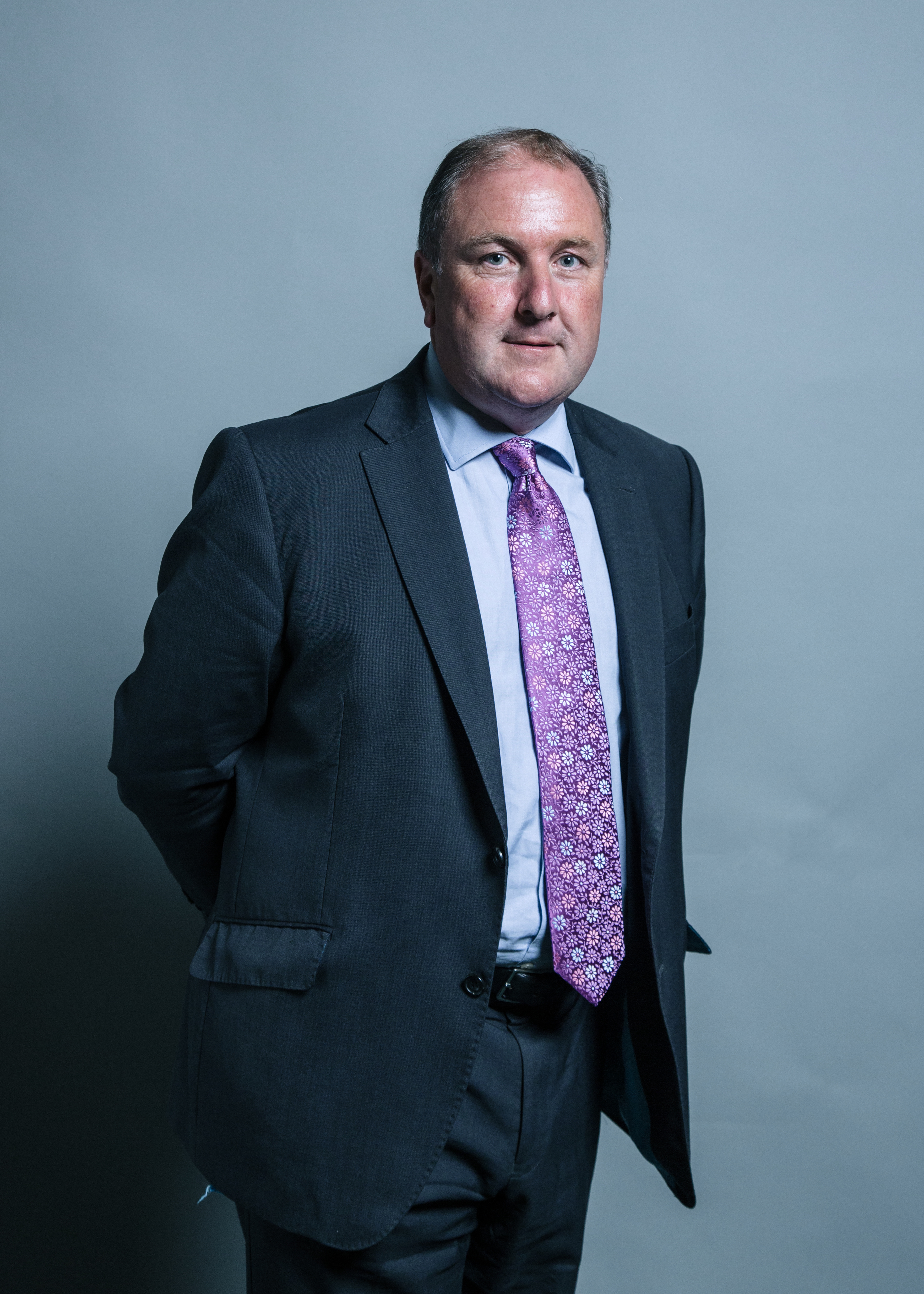 Simon James Hoare, Member of Parliament for North Dorset